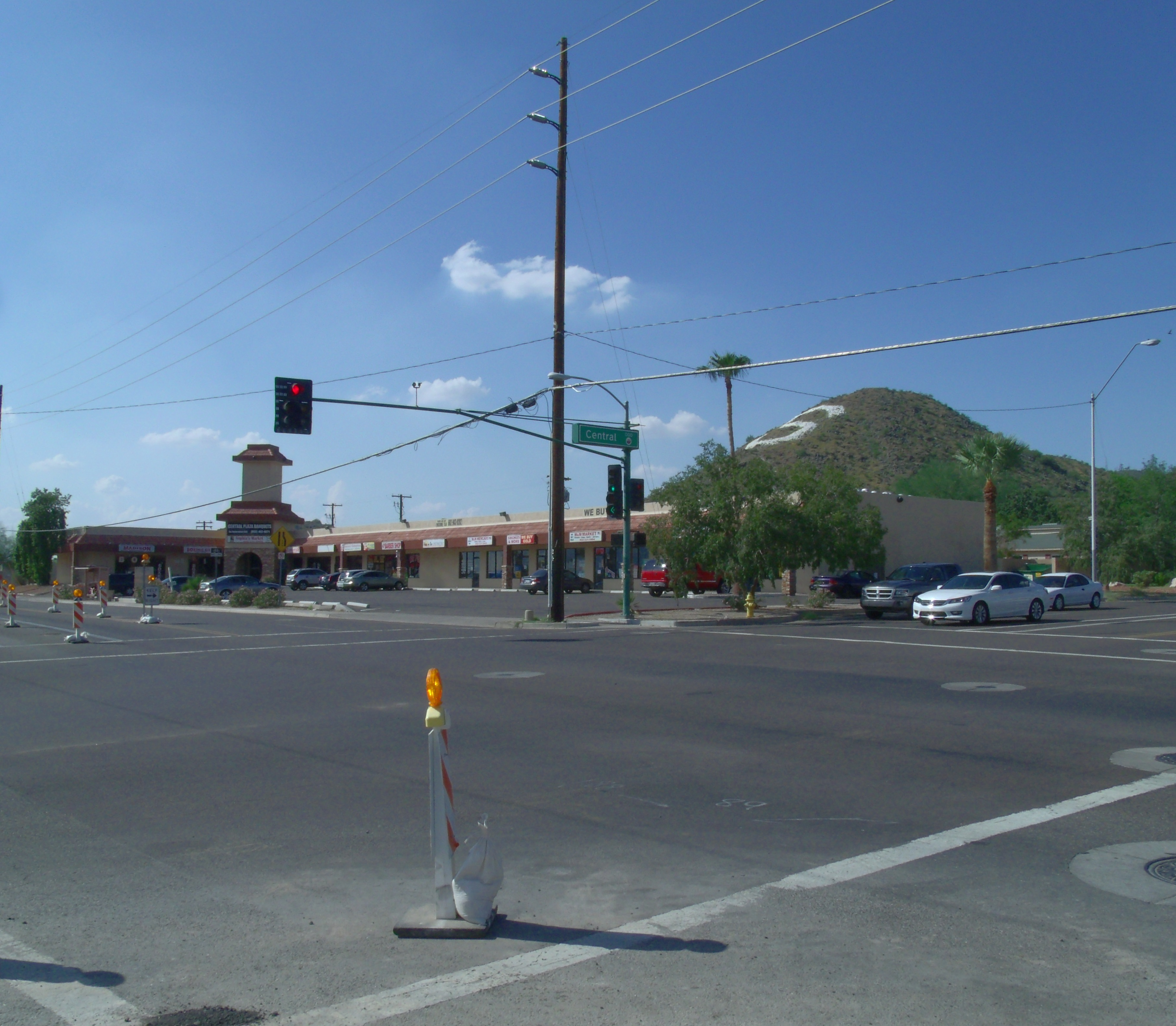 This is an intersection of Central and Hatcher Avenues in Sunnyslope. Historic Sunnyslope Mountain, also known as “S” Mountain, is in the background.